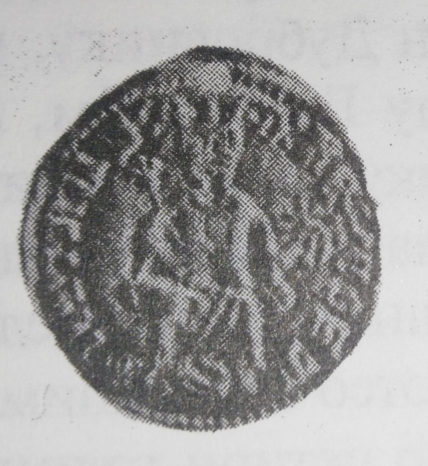 A coin of Konstantin Balsic, lord of Kruje.